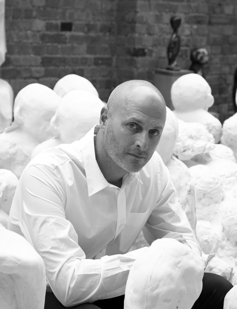 Artist Daniel Silver, photo by Andrea Spotorno, 2013.